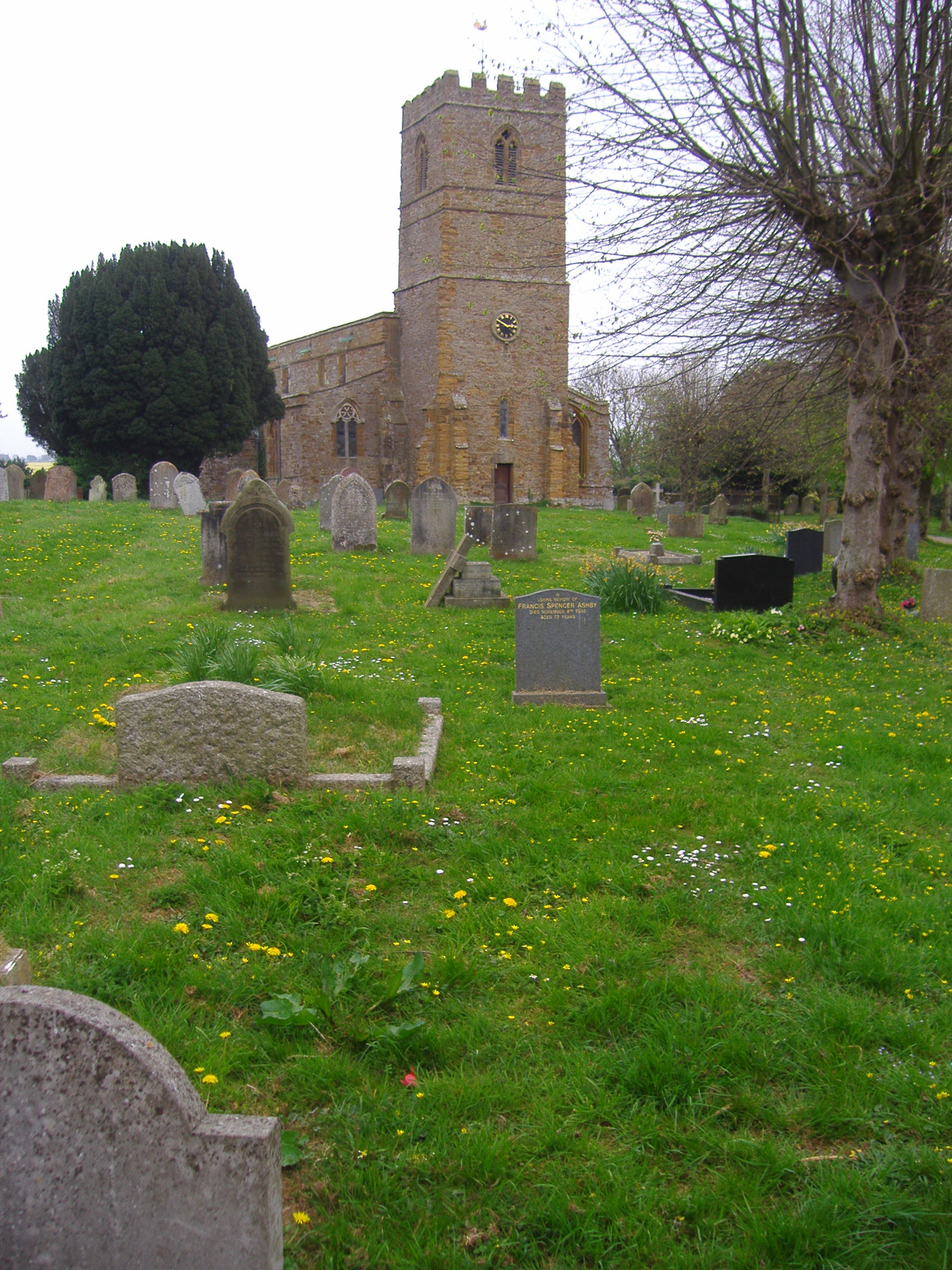 A Digital Photograph of Norton Parish Church